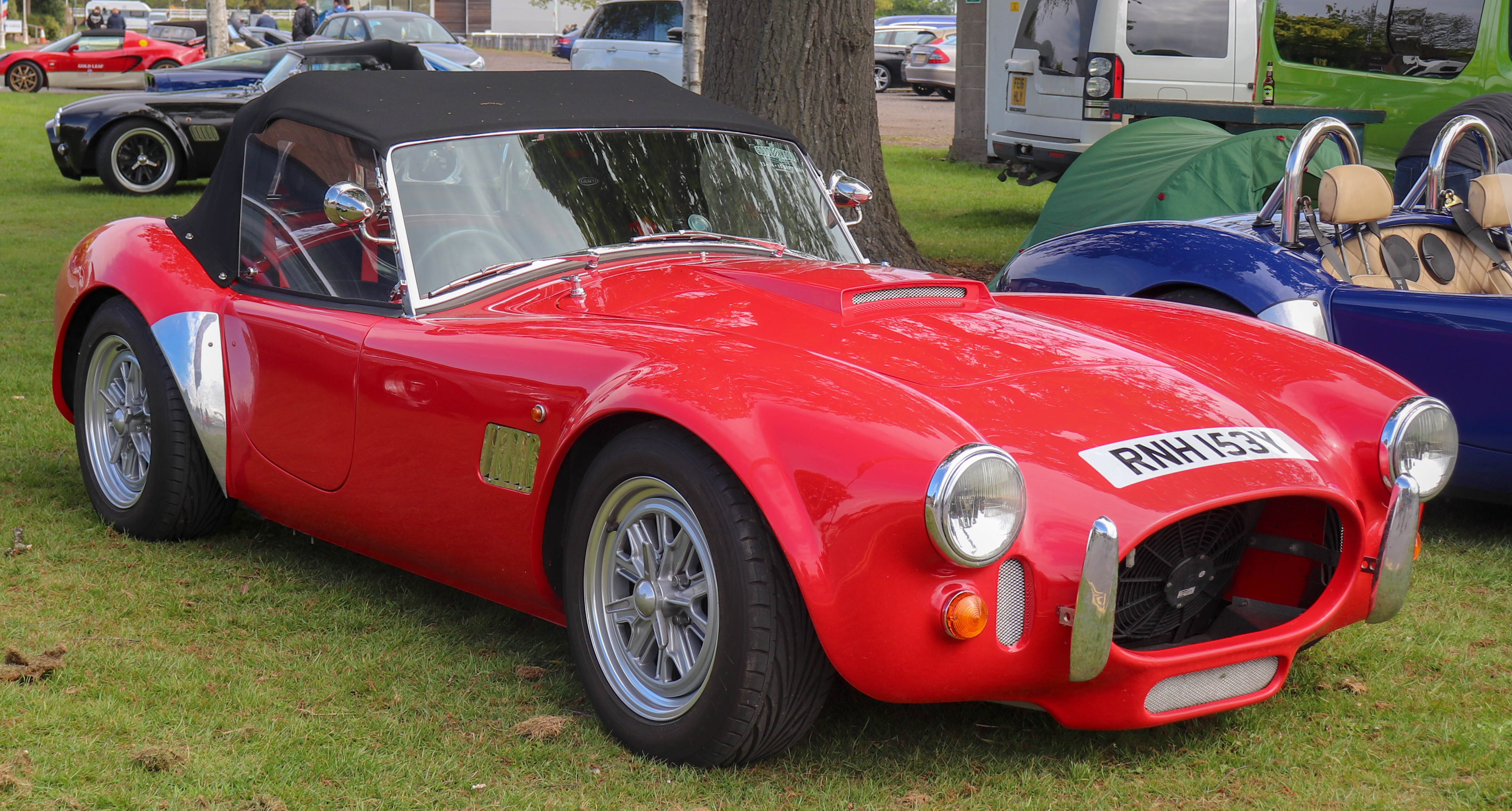 1983 (Donor) Gardner-Douglas 427 MK3 5.7 Front Taken at the Stoneleigh National Kit Car Motor Show 2019